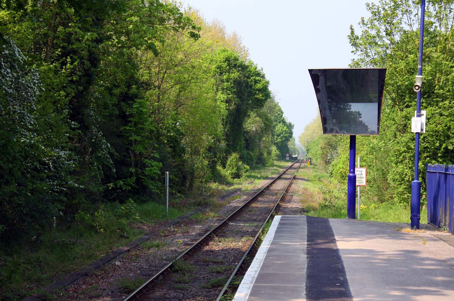 The line to Henley at Wargrave Station, Data from Geograph: Description: SU7878 :: The line to Henley at Wargrave Station, near to Wargrave, Wokingham, Great Britain ICBM: 51.498616646538, -0.87657742927782 Location: (about 1 km from) near to Wargrave, Wokingham, Great Britain.